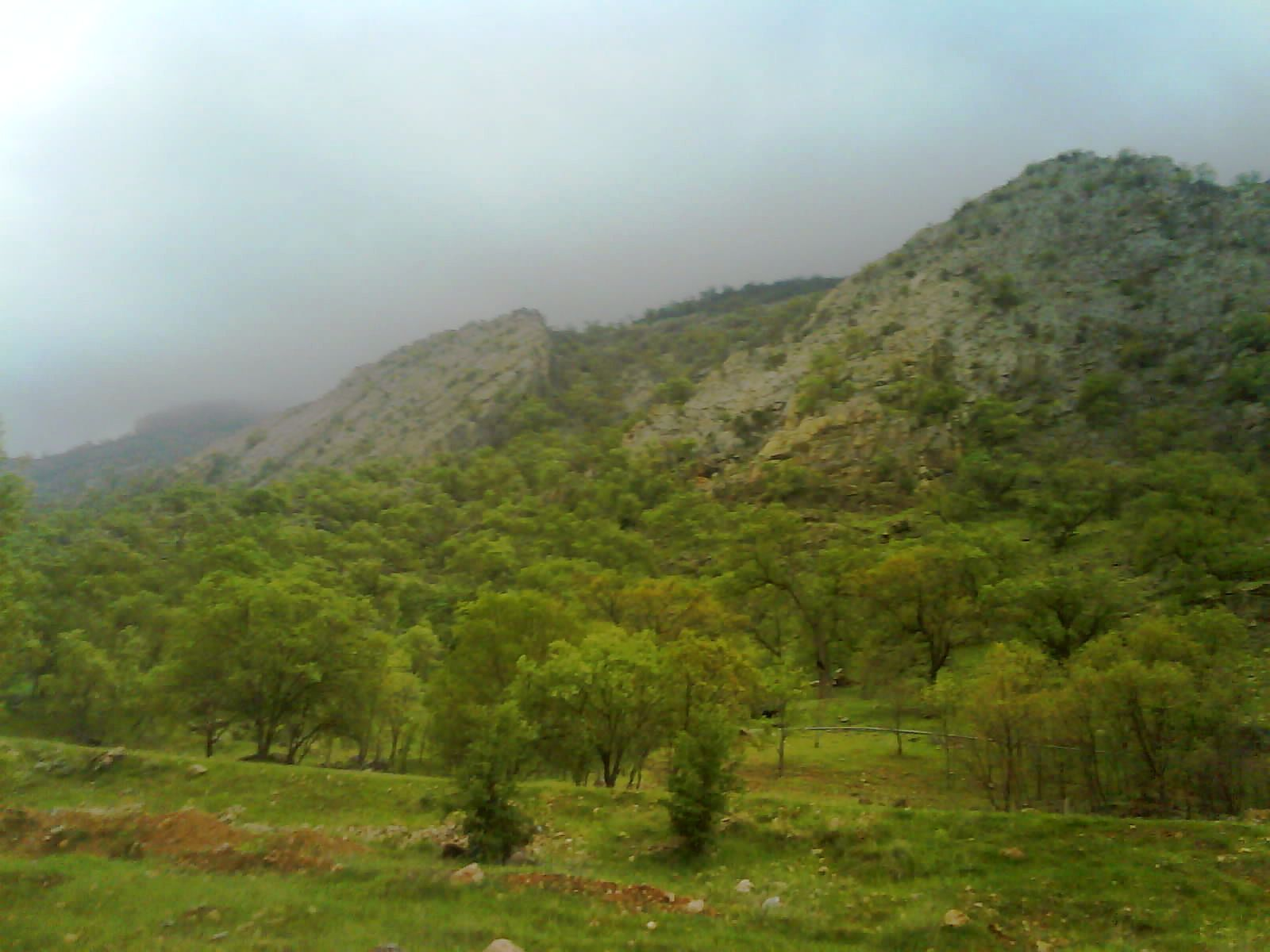 tangedil